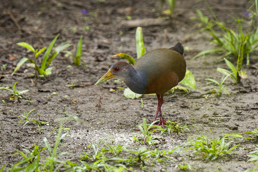 Grey-necked Wood Rail Aramides cajaneus, Manu NP, Peru 8700